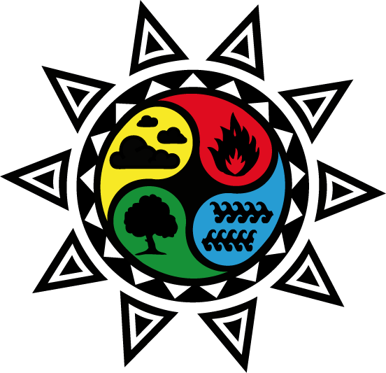 Four elements (Air, Fire, Water, Earth) in solar symbol